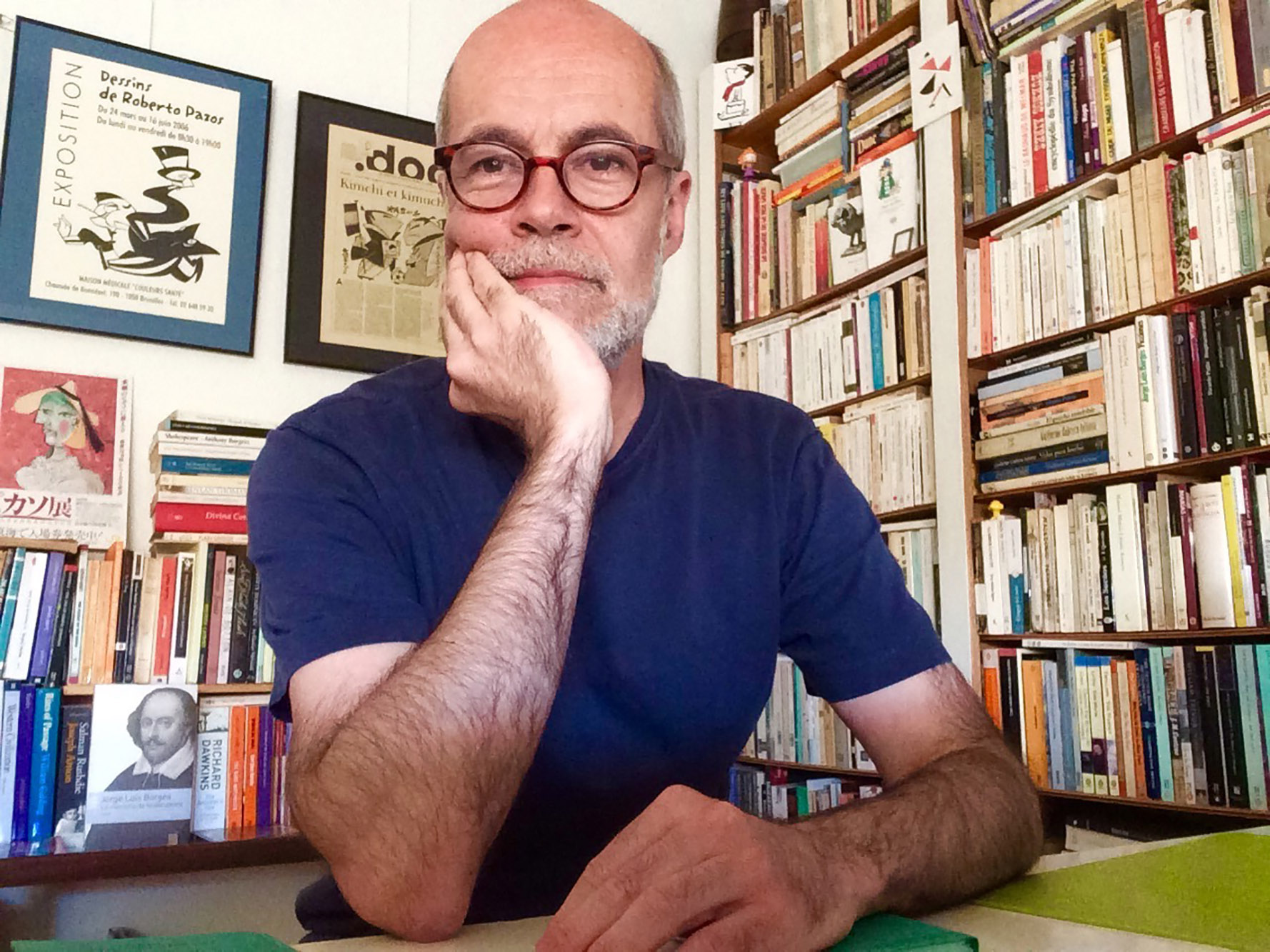 Photo of Roberto Pazos in his studio, taken in Brussels, Belgium 2016